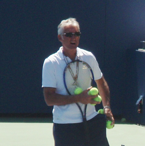 Jose Higueras at US Open